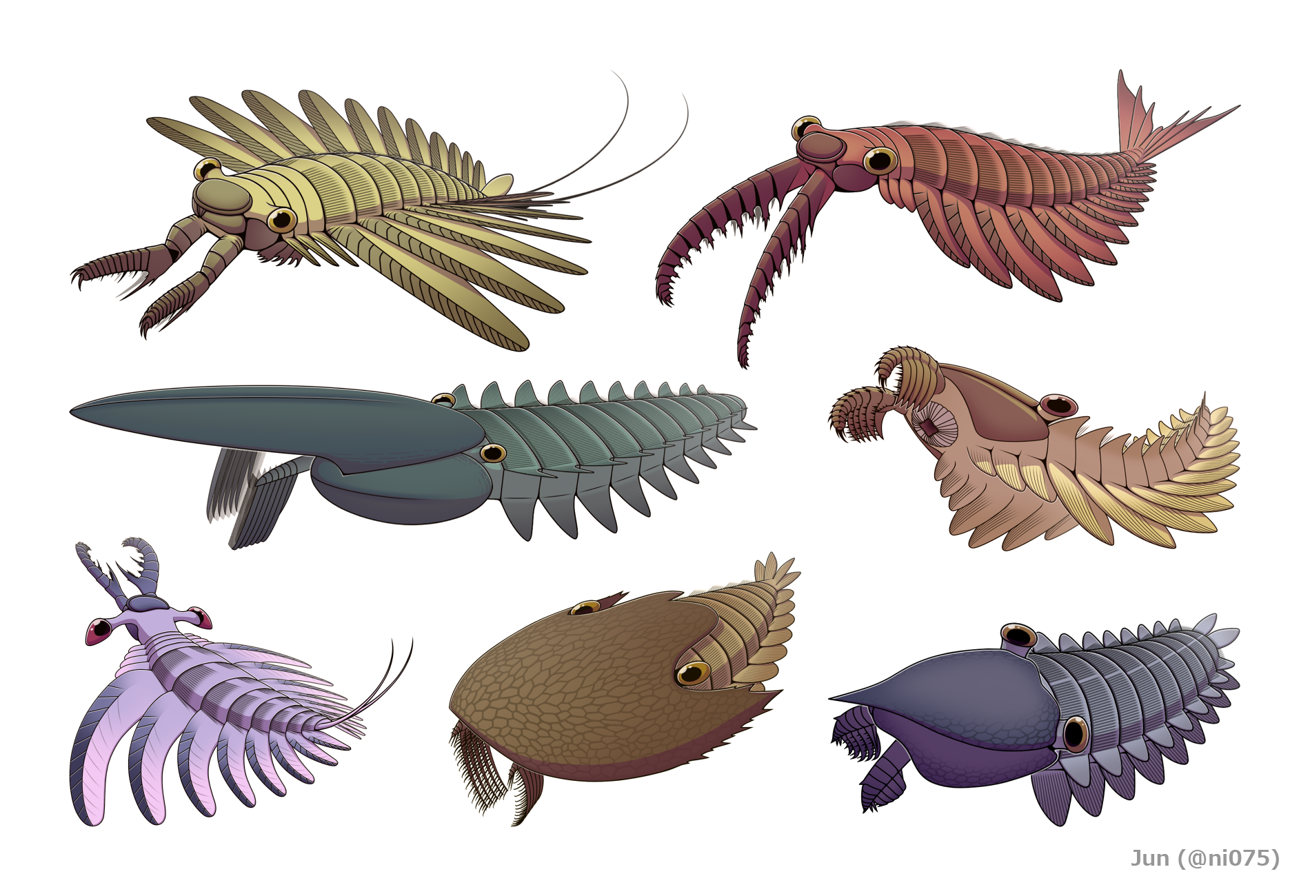 Examples of radiodonts a.k.a anomalocaridids or radiodontans (=Radiodonta, dinocaridid, stem-group arthropod). Size not to scale.